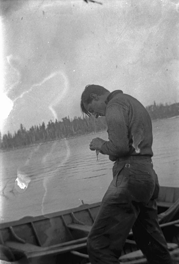 Tom Thomson in Algonquin Provincial Park